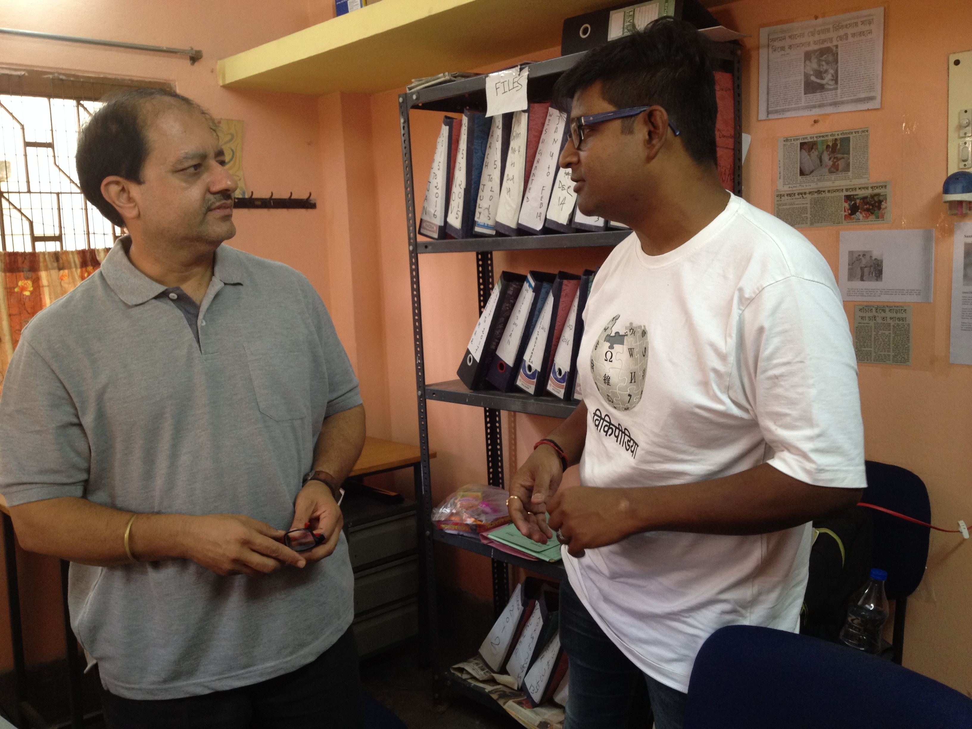 This photograph has been taken during a meeting between Wikipedian Indrajit Das and Deepak S Bhatia, CEO of "Make a Wish",India at their Kolkata Office.